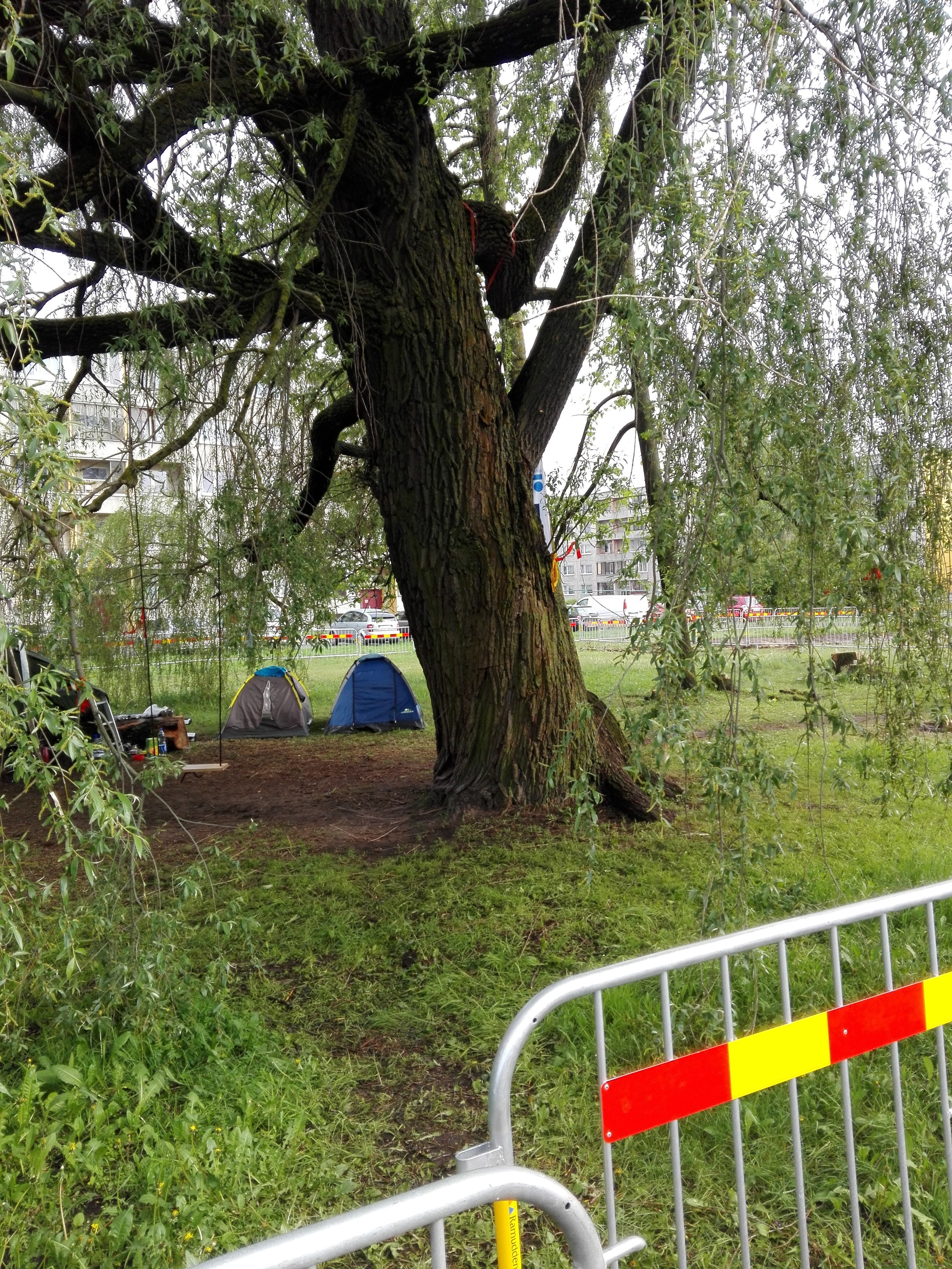 Haabersti hõberemmelgas ehk Haabersti hõbepaju ehk Haabersti paju (Salix alba), mille mahavõtmist looduskaitsjad Haabersti ringtee remondi ajal vastustasid.